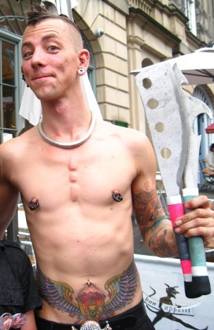 Close up of Space Cowboy